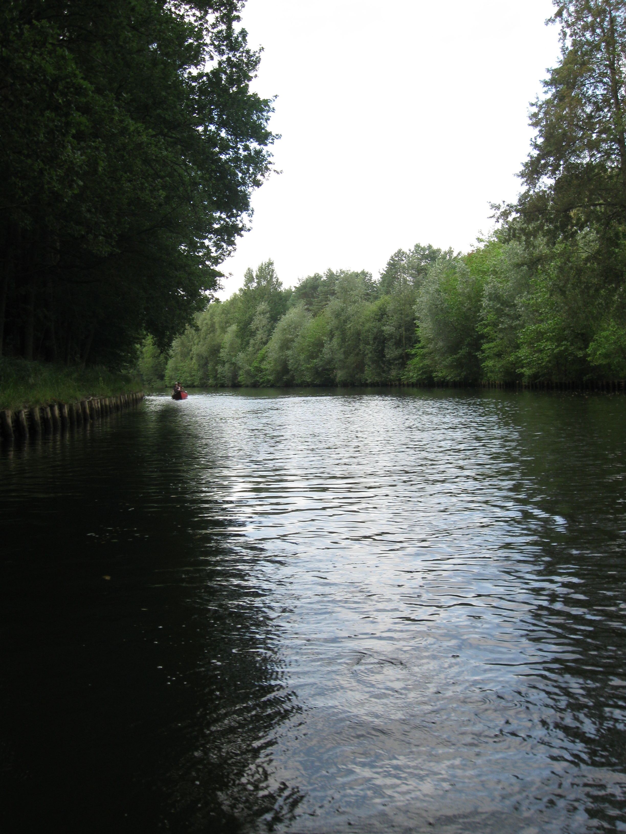 The canal Hüttenkanal in Brandenburg